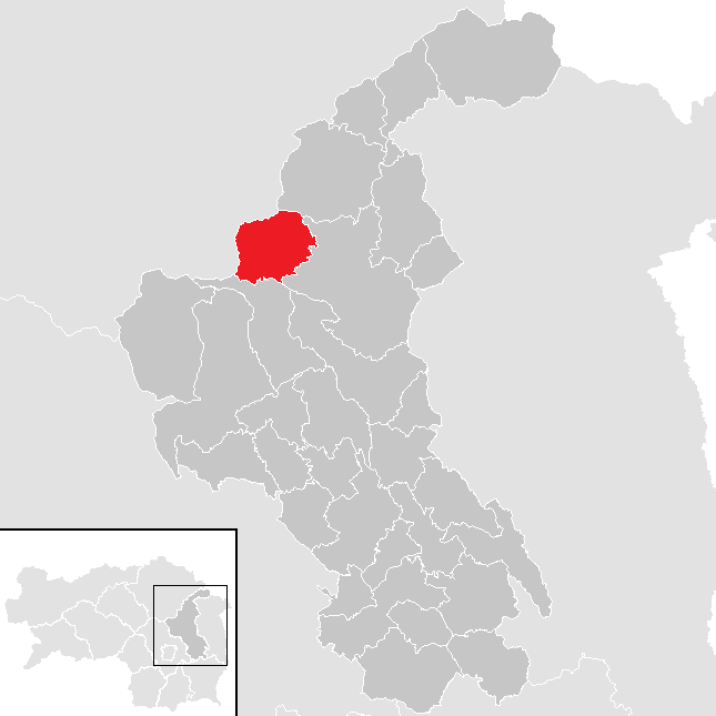 district Weiz